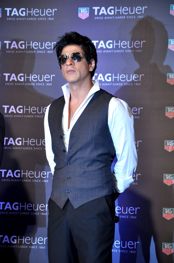 Shahrukh Khan launches the Tag Heuer Carrera Monaco GP limited edition watch